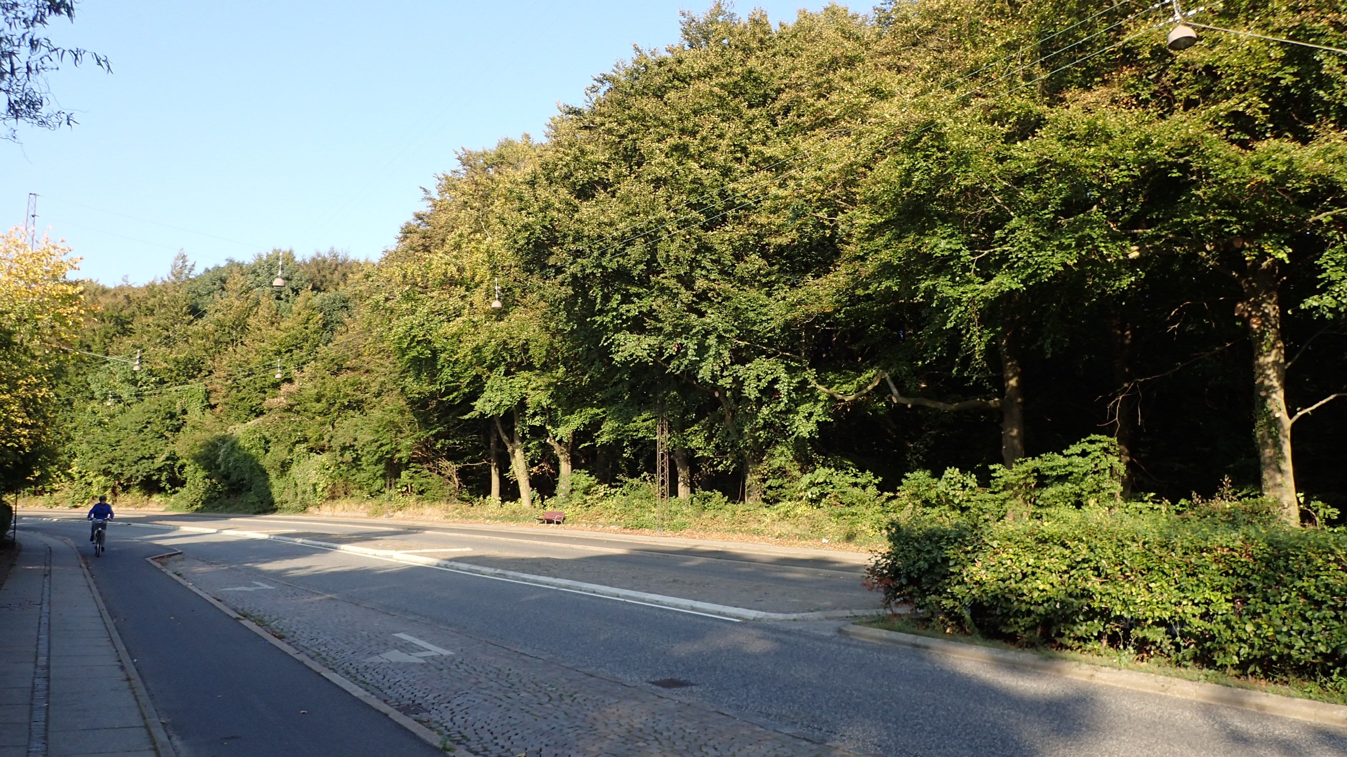 Dronning Margrethes Vej. På Trøjborg tæt ved Marienlund.